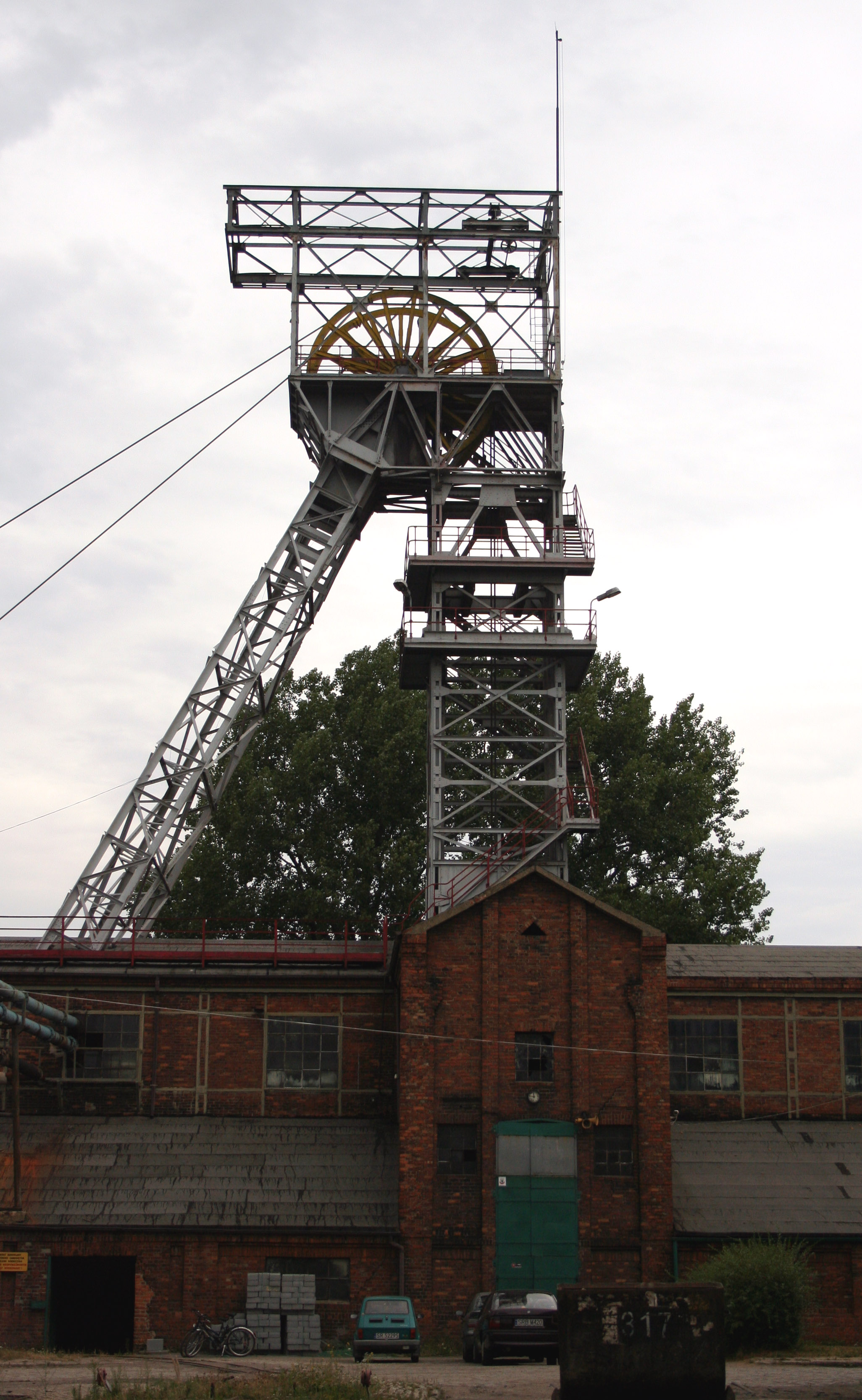 Coal mine elevator tower, Well Kościuszko, Rybnik-Niewiadom, Poland